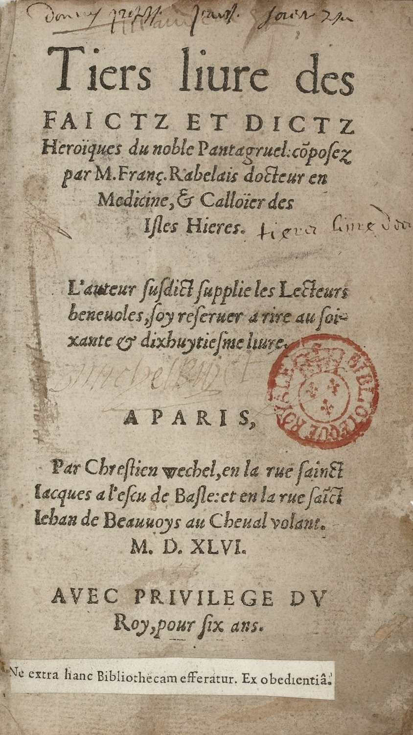 Title page of the first edition of the Tiers livre by Rabelais (Paris: Chrestien Wechel, 1546).